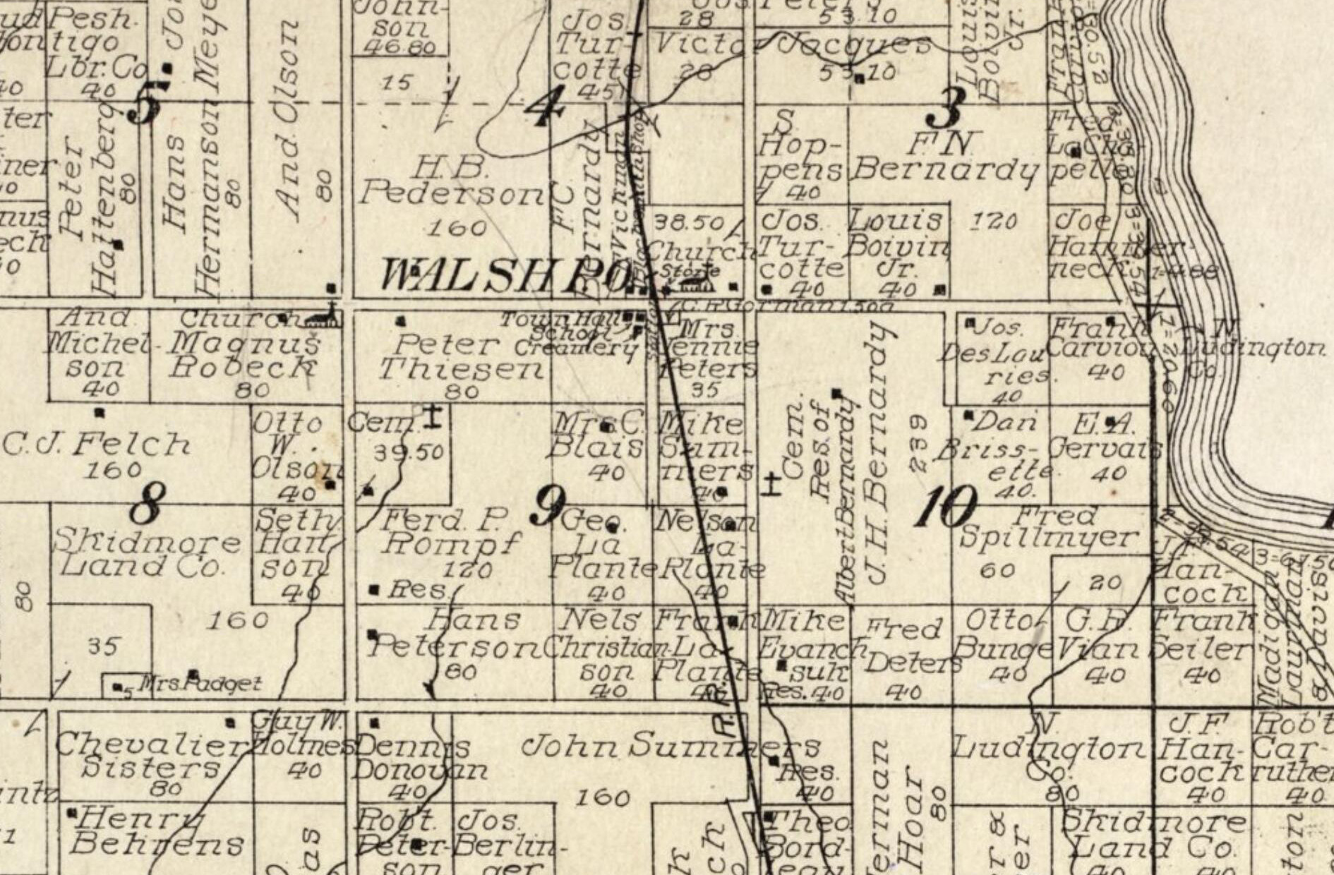 Map detail of Walsh, Wisconsin. From Standard Atlas of Marinette County Wisconsin Including a Plat Book of the Villages, Cities and Townships of the County. 1912. Chicago: Geo. A. Ogle & Co.